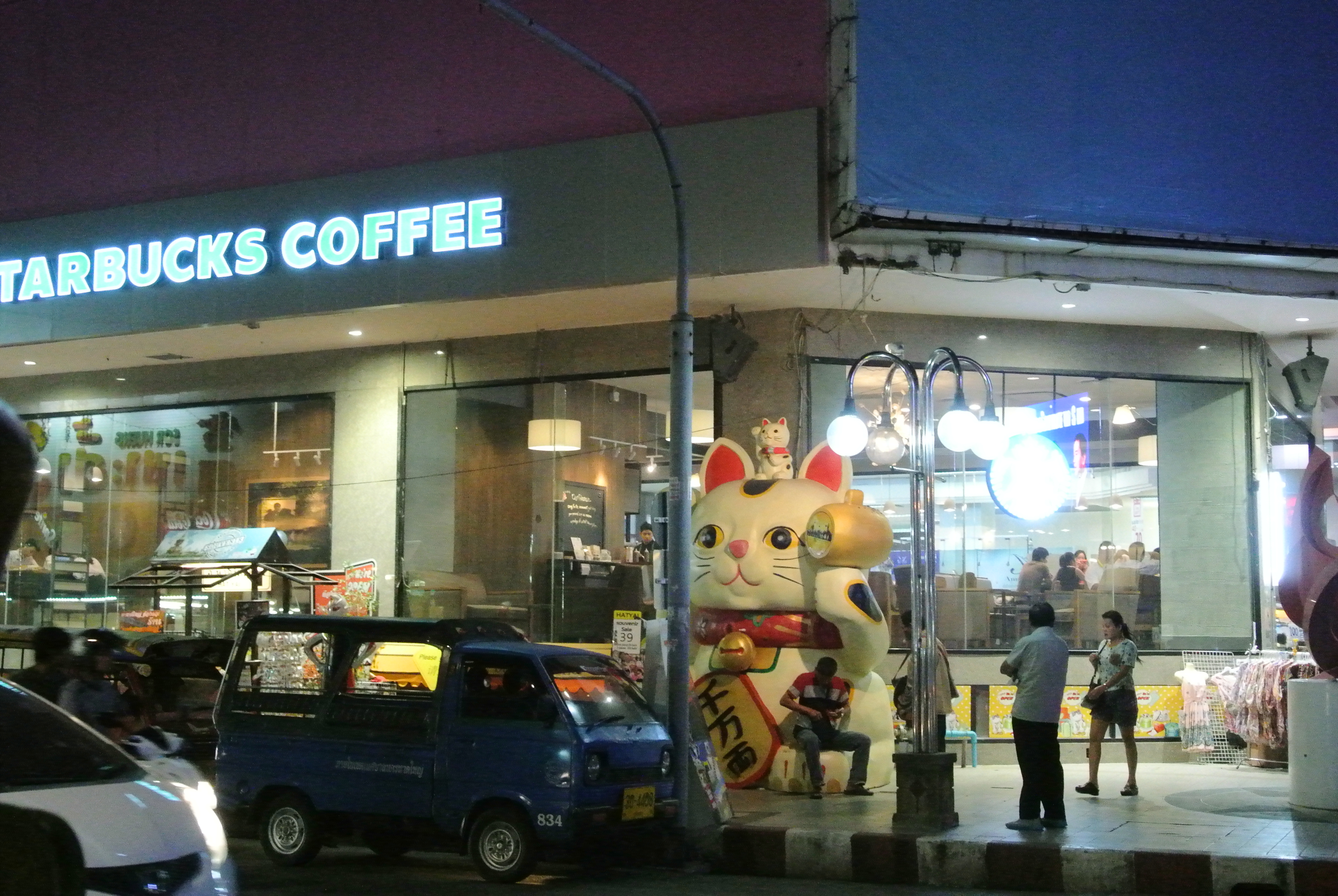 Lucky-Cat statue in front of Odean department store, Ha-Yai, Thailand